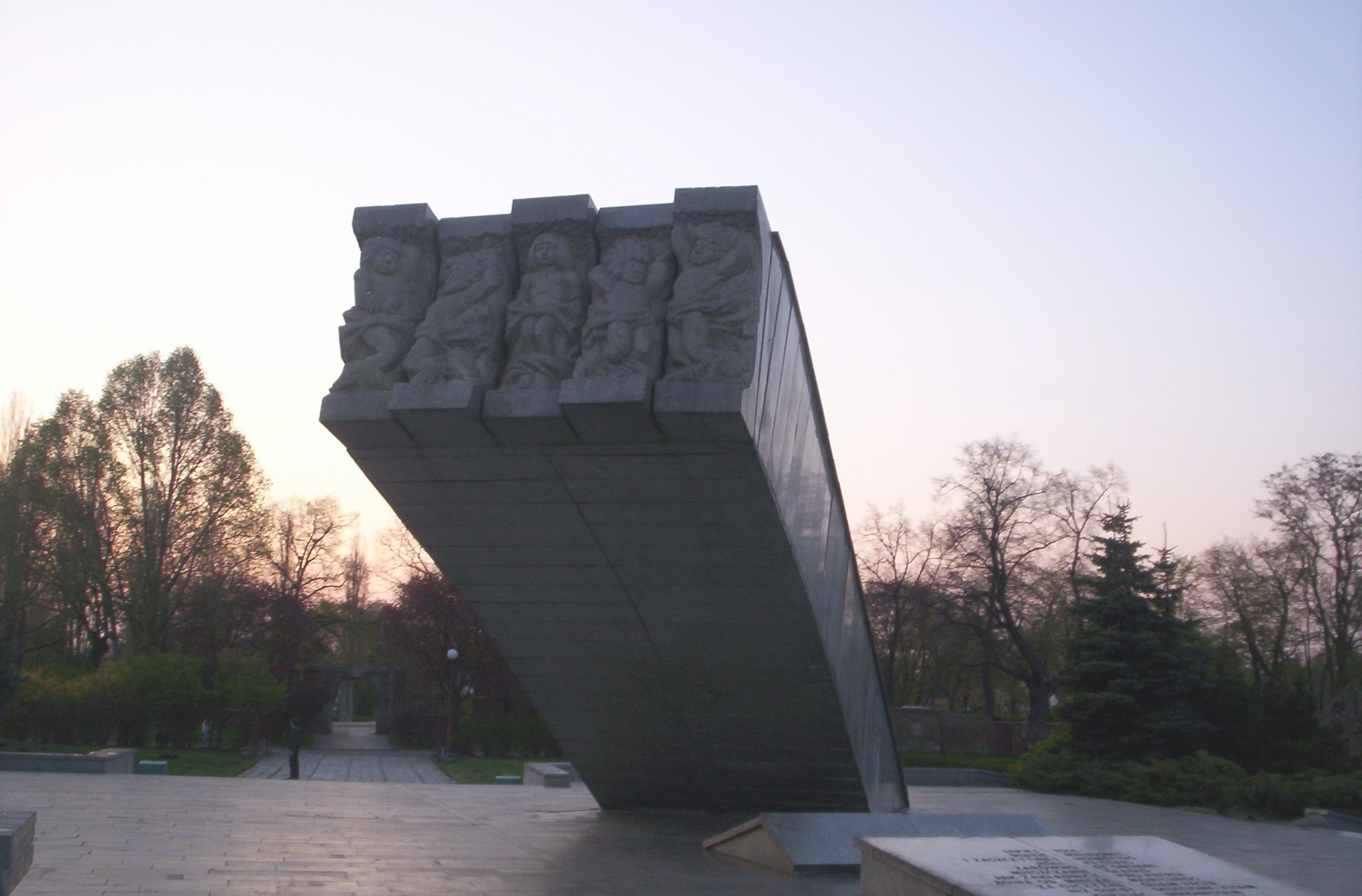 Children of Głogów monument in Głogów. Picture taken on April 24, 2005 by Paweł Dembowski